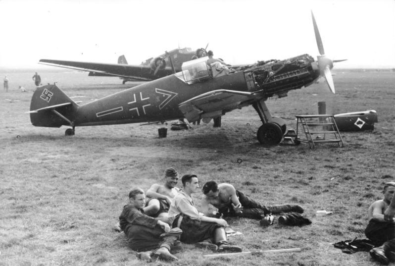 Luftwaffe soldiers of the Jagdgeschwader 53 (JG 53) fighter wing (also known as "Ace of Spades") resting at an airfield infront of a Messerschmitt Bf 109 with an open cowling. Behind in the background is a Junkers Ju 52; KBK LW 3.